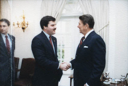 President Ronald Reagan, Blaz, Callahan, Kolbe, Dornan, Strang, Rowland, Swindall, Fawell, Grotberg, McIntyre, Lightfoot, Meyers, Bentley, Henry, Schuette, Smith, Gallo, Saxton, DioGuardi, Eckert, Cobey, Coble, McMillan, Hendon, Barton, Boulter, Sweeney, and Armey (2-35) Meeting with freshman Republican members of Congress